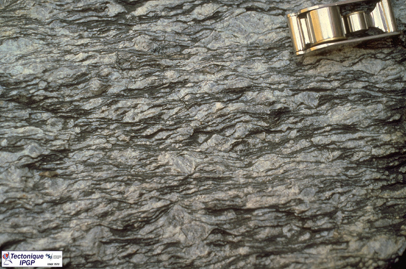 Orthogneiss with C/S structure due to left-lateral ductile shear. Ailao Shan - Red River shear zone (Yunnan, China).